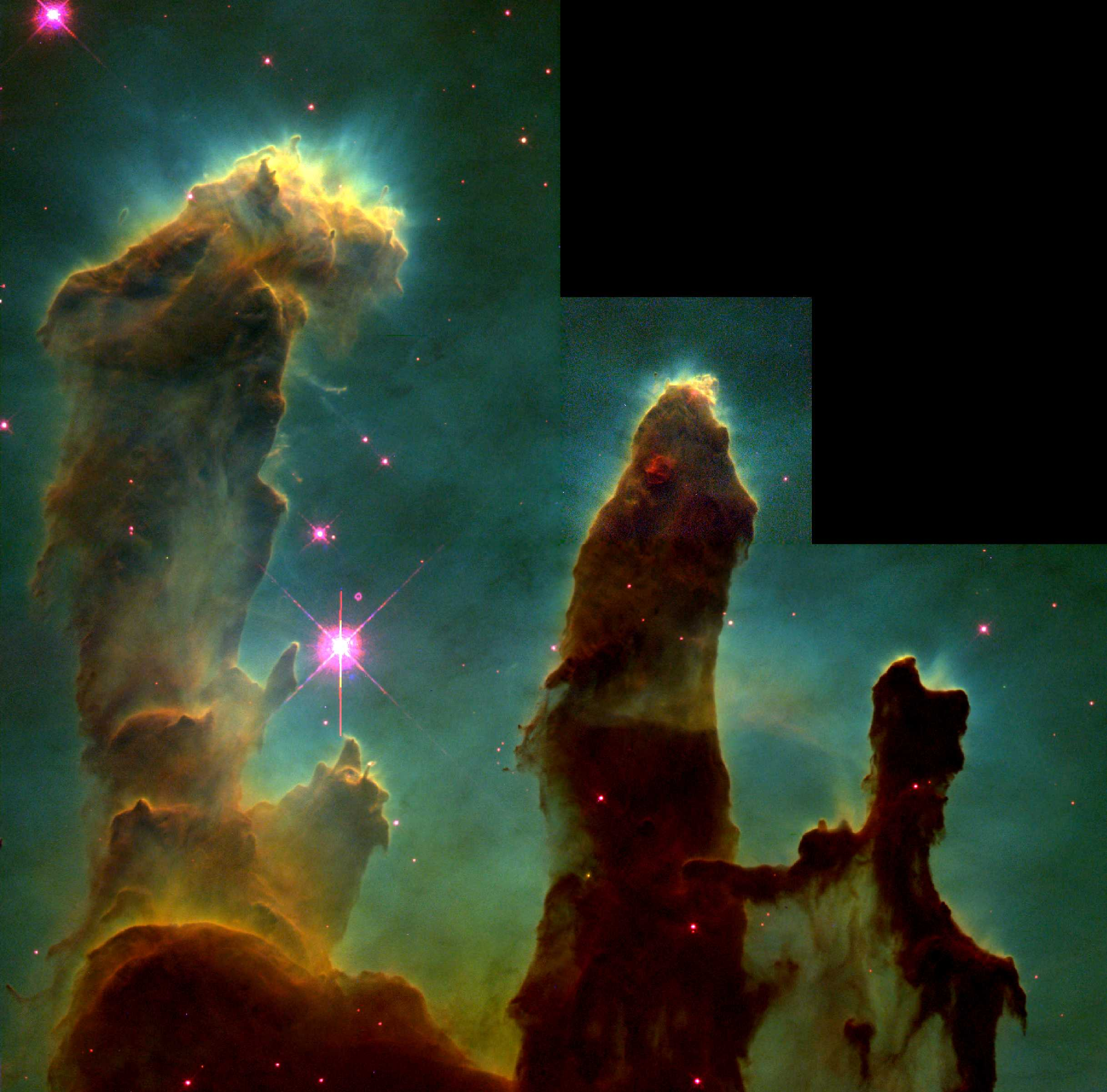 Star forming pillars in the Eagle Nebula, as seen by the Hubble Space Telescope's WFPC2. The picture is composed of 32 different images from four separate cameras in this instrument. The photograph was made with light emitted by different elements in the cloud and appears as a different colour in the composite image: green for hydrogen, red for singly-ionized sulphur and blue for double-ionized oxygen atoms. The missing part at the top right is because one of the four cameras has a magnified view of its portion, which allows astronomers to see finer detail. The images from this camera were scaled down in size to match those from the other three cameras. Further information at: Credit: NASA, Jeff Hester, and Paul Scowen (Arizona State University)